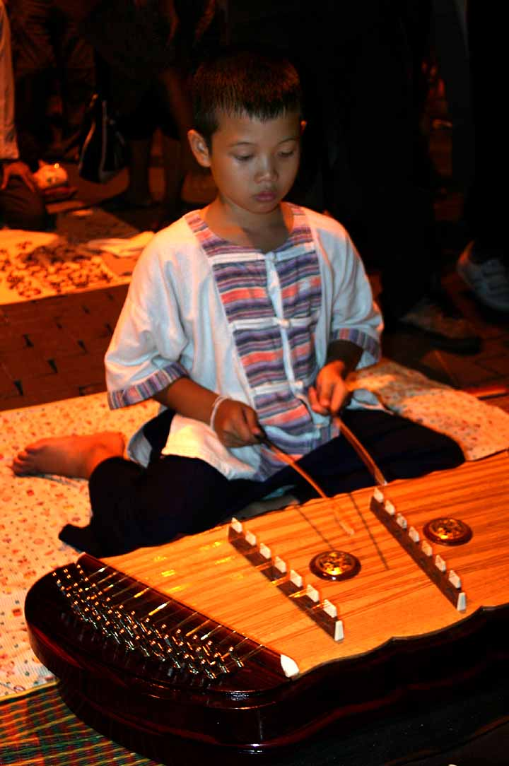 Sunday market, Chiangmai: A boy playing a khim, a traditional hammered dulcimer